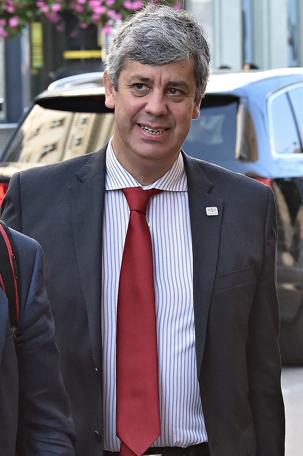 Portugal, Mr. Mário Centeno, Minister of Finance - INFORMAL MEETING OF MINISTERS FOR ECONOMIC AND FINANCIAL AFFAIRS (Informal ECOFIN) 2016-09-10 Photo Rastislav Polak